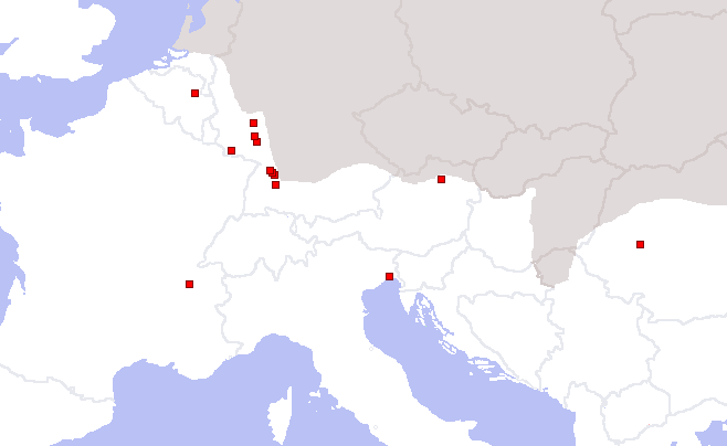 Distribution of epigraphic inscriptions dedicated to Erecura, Herecura, Aerecura and other variant spellings. Off the map is one inscription in Announa, Algeria.